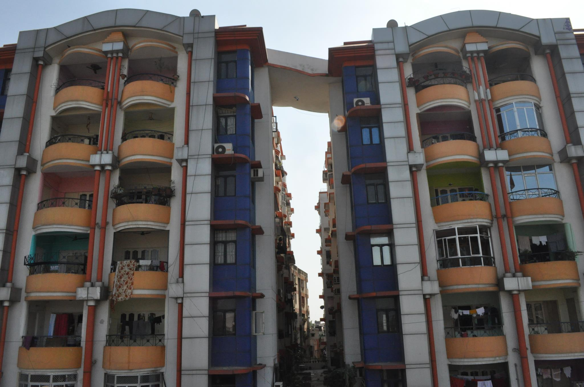 kankarbagh colony